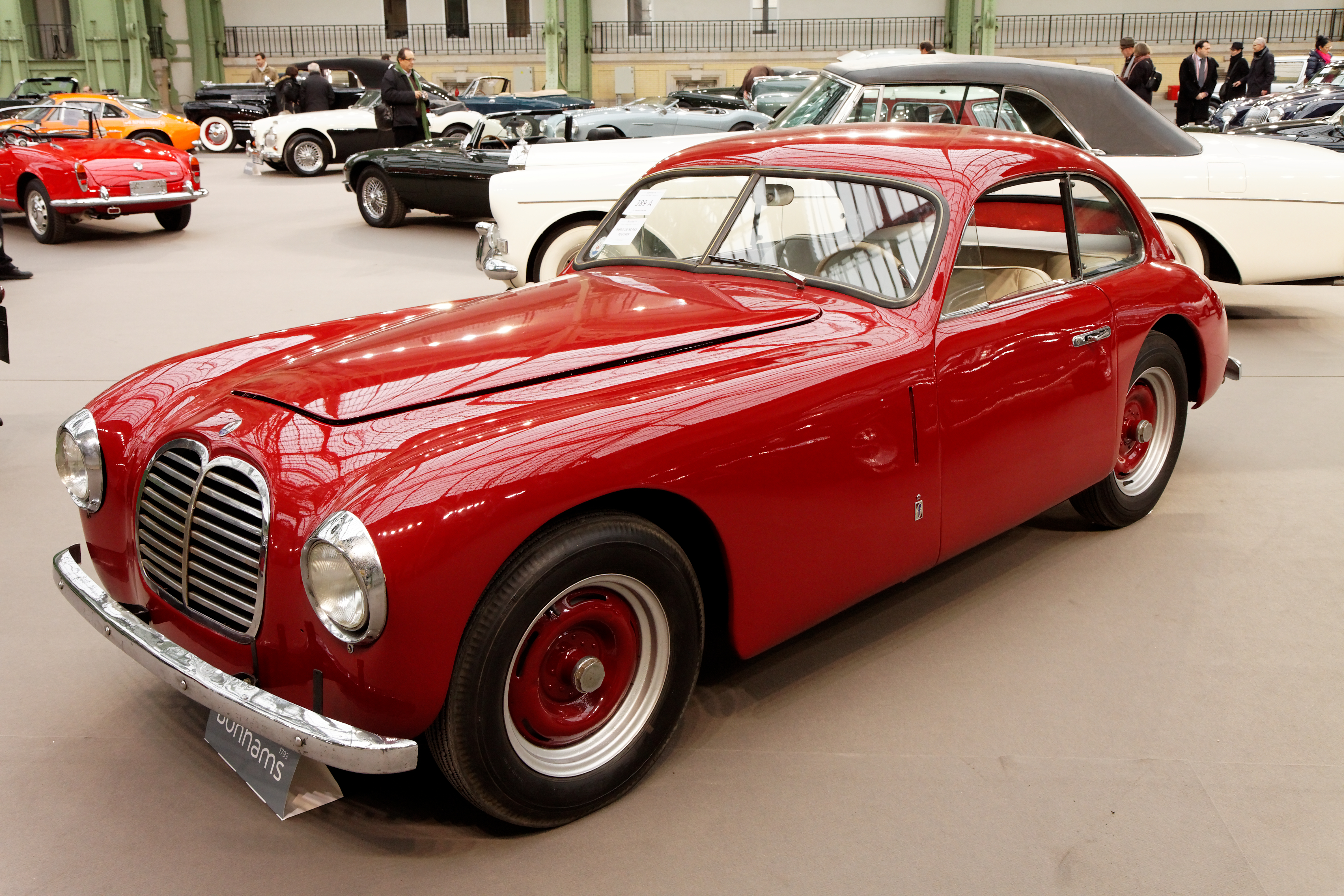 Maserati A6 1500